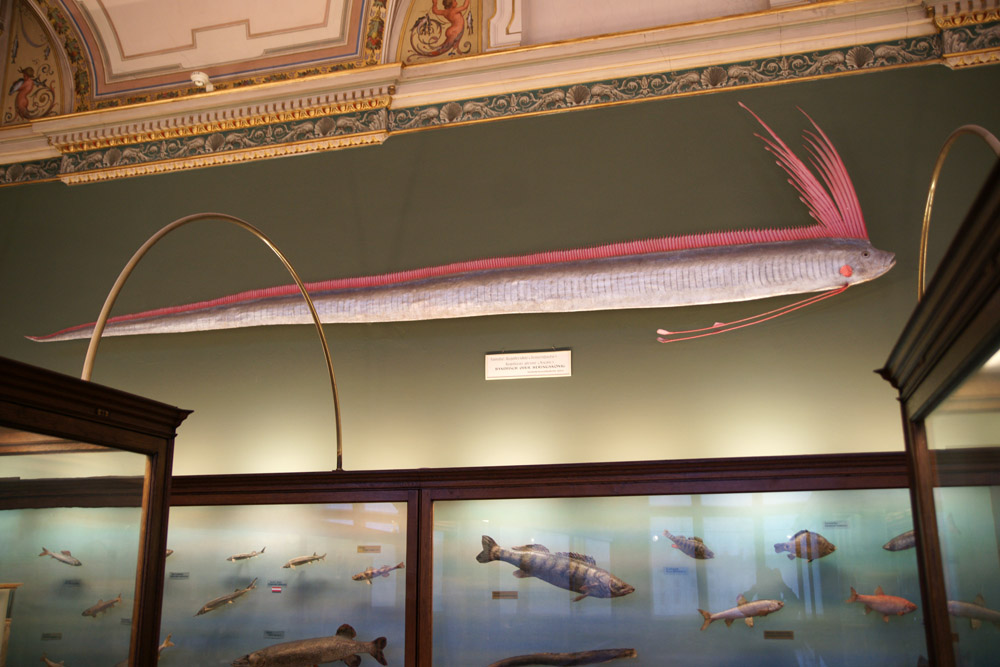 King of herrings or giant oarfish, Regalecus glesne, Naturhistorisches Museum Wien, shown in its museal context.